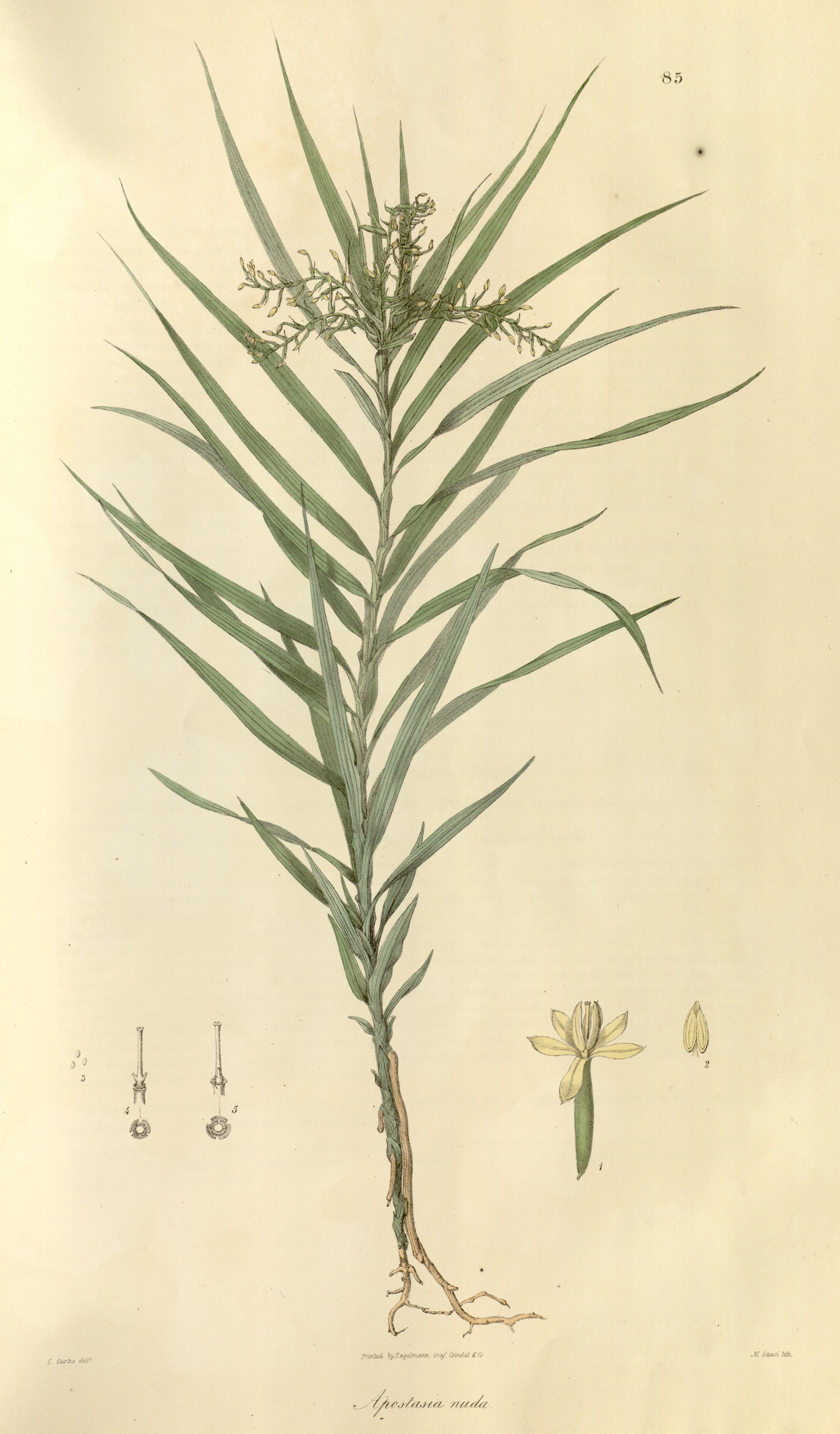 Illustration of Apostasia nuda